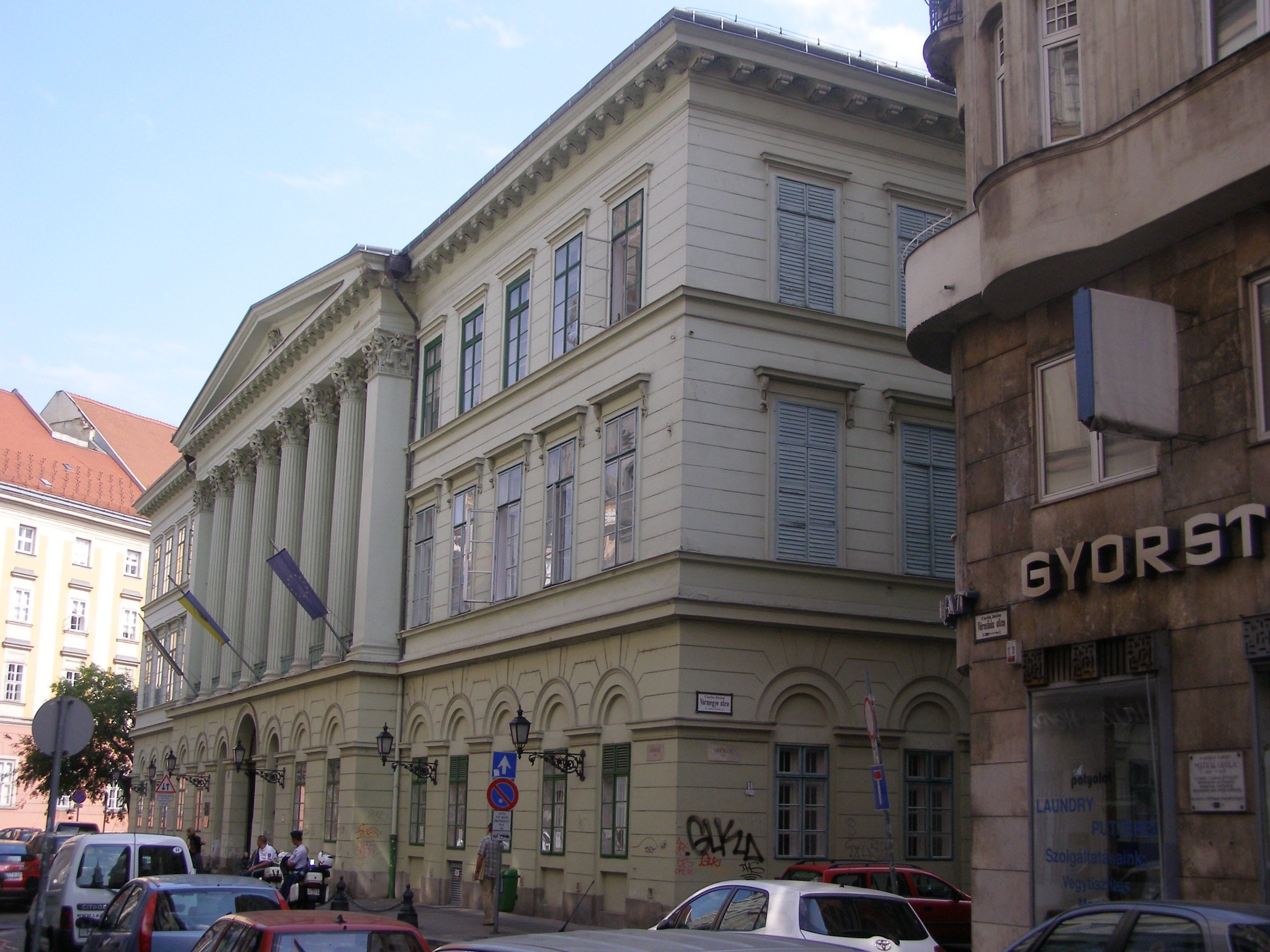 Budapest - Pest County hall